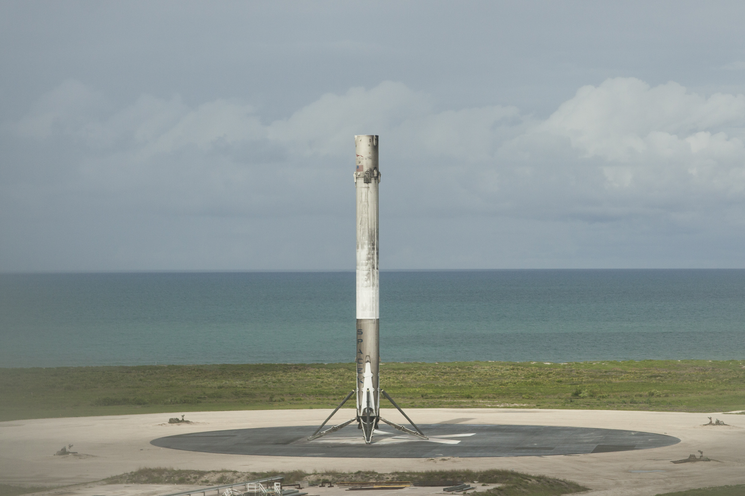 First stage of Falcon 9 landed on Landing Zone 1